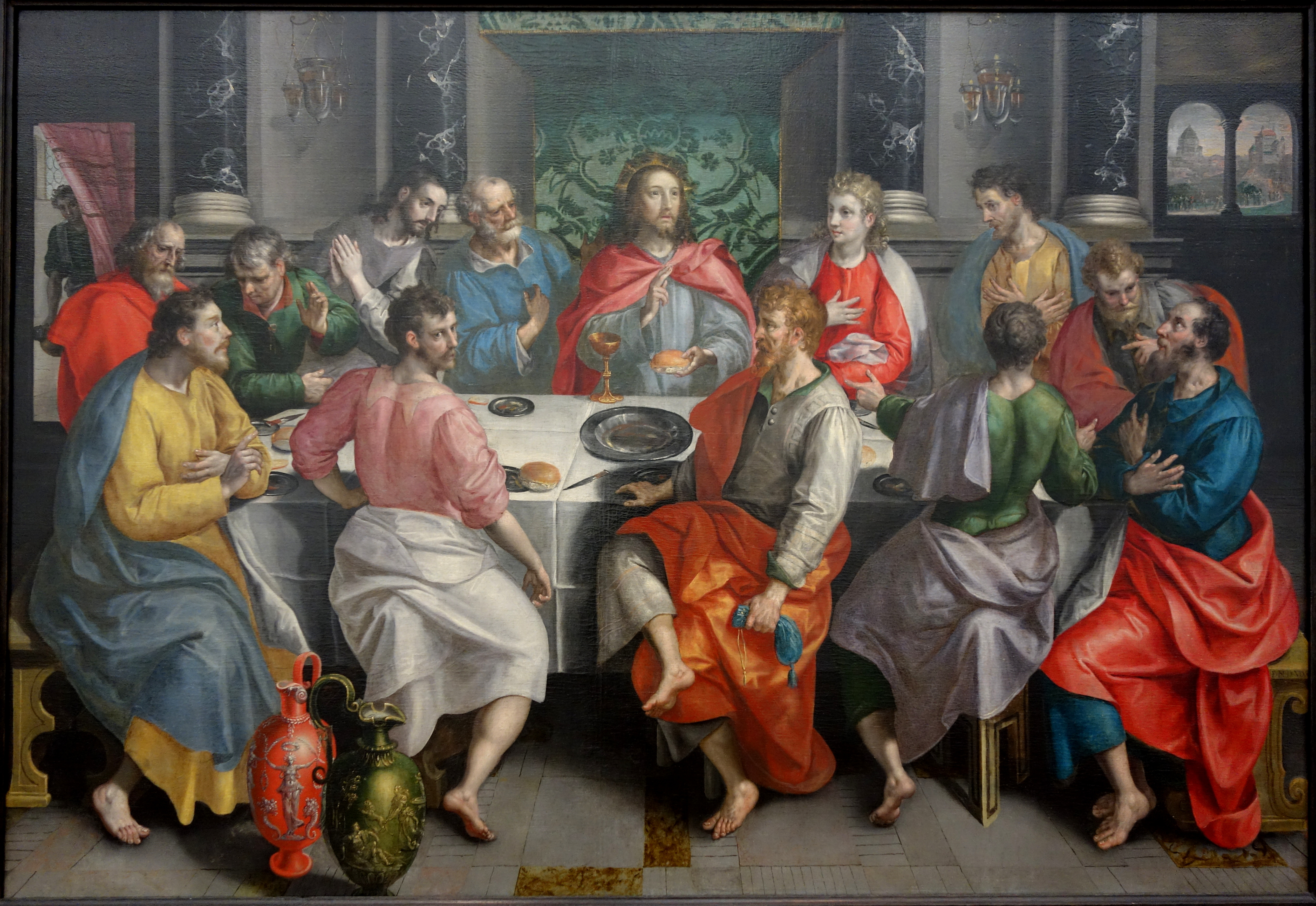 Painting in the National Museum of Western Art, Tokyo, Japan. This artwork is in the public domain because the artist died more than 70 years ago.